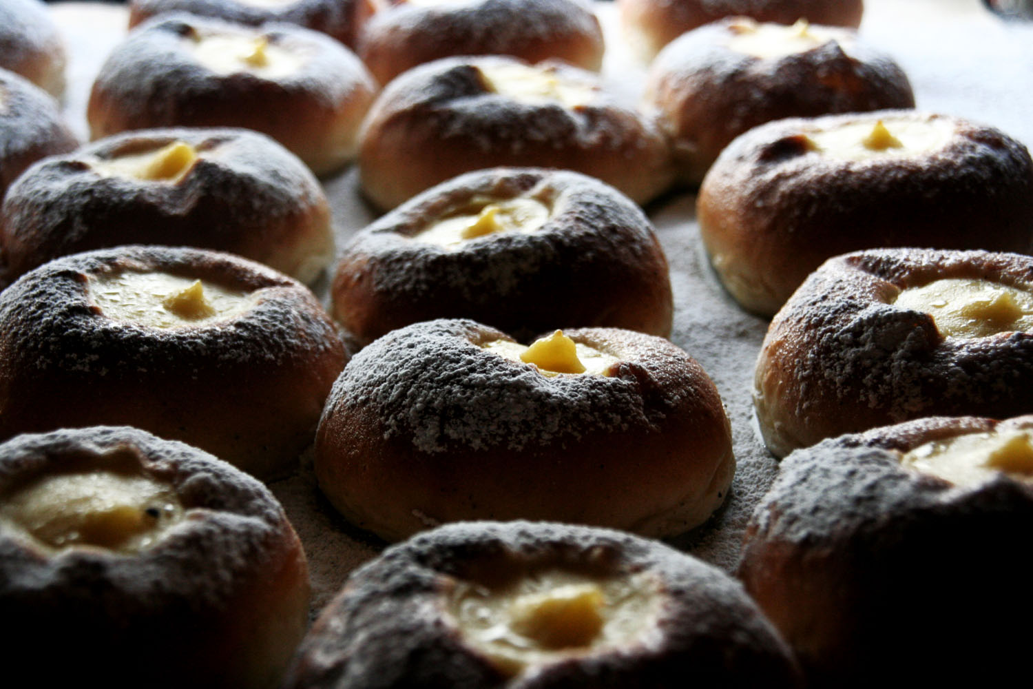 Homemade bomboloni Recipe: Bomboloni (40pz): •1 kg di farina •15 g di sale •180 g di zucchero •un pizzico di vanillina •100 g di burro •2 o 3 uova •acqua (circa 400 ml) •2 cubetti da 25gr di lievito di birra Crema: •1 l di latte •un limone di cui grattugiare la buccia •250 g di zucchero •6 tuorli d’uova •80 g di farina •un pizzico di vanillina